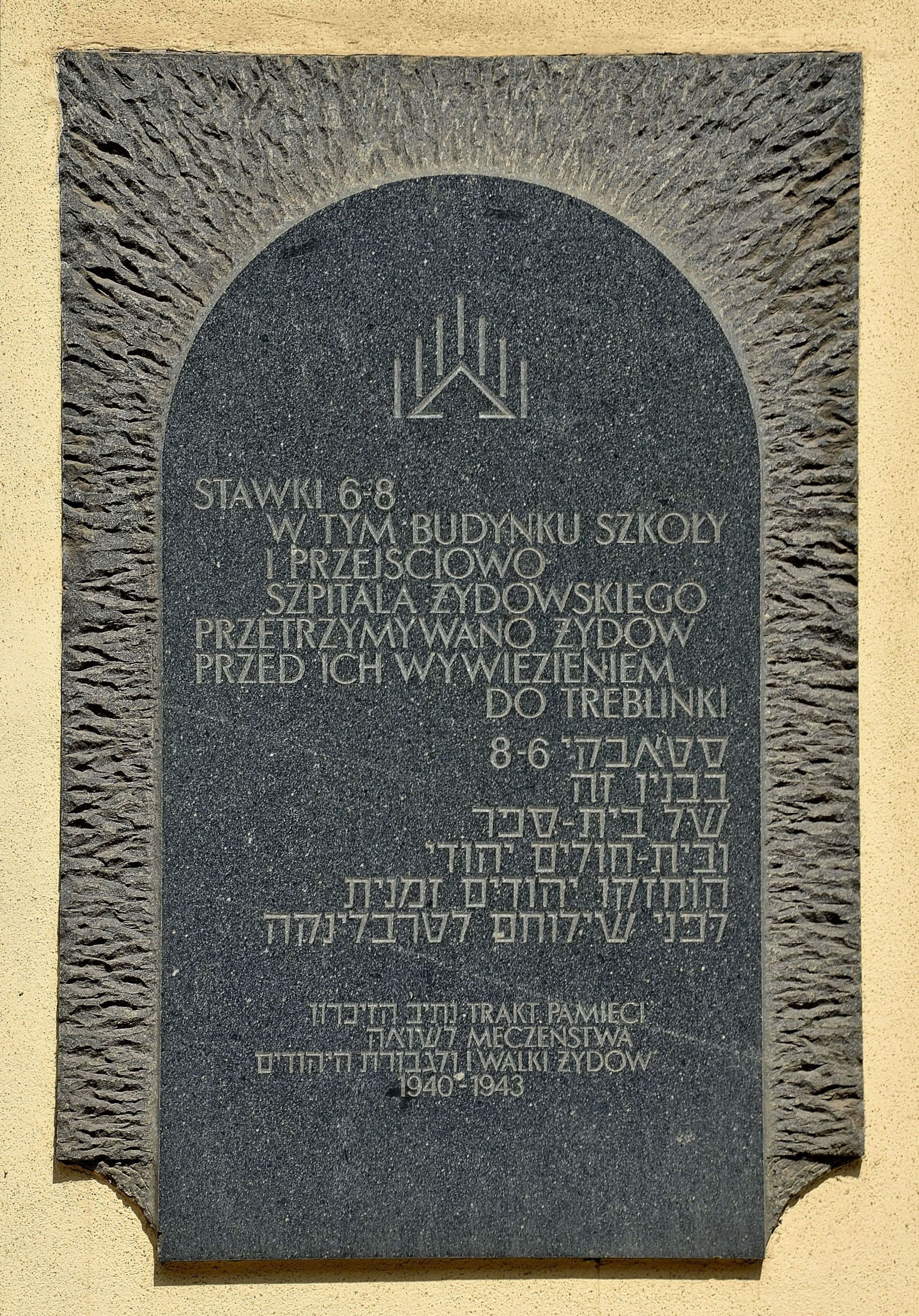 Commemorative plaque at 10 Stawki Street in Warsaw